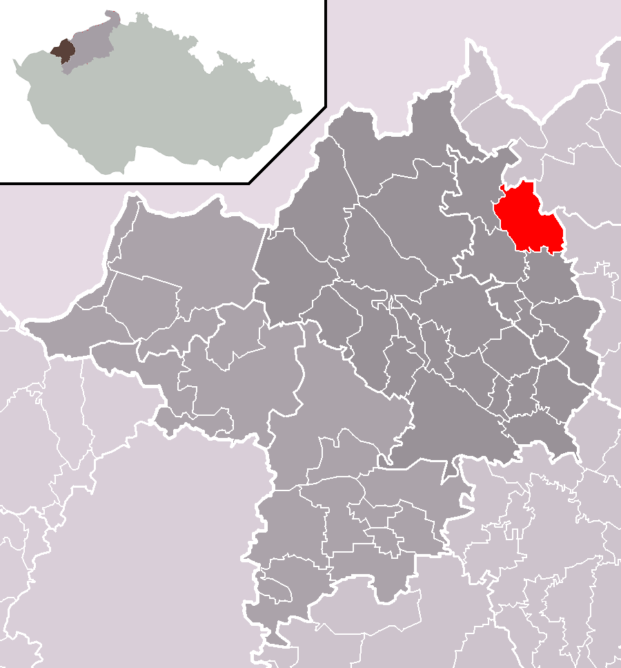 Location of Vysoká Pec municipality within Chomutov District and administrative area of Chomutov as a Municipality with Extended Competence.